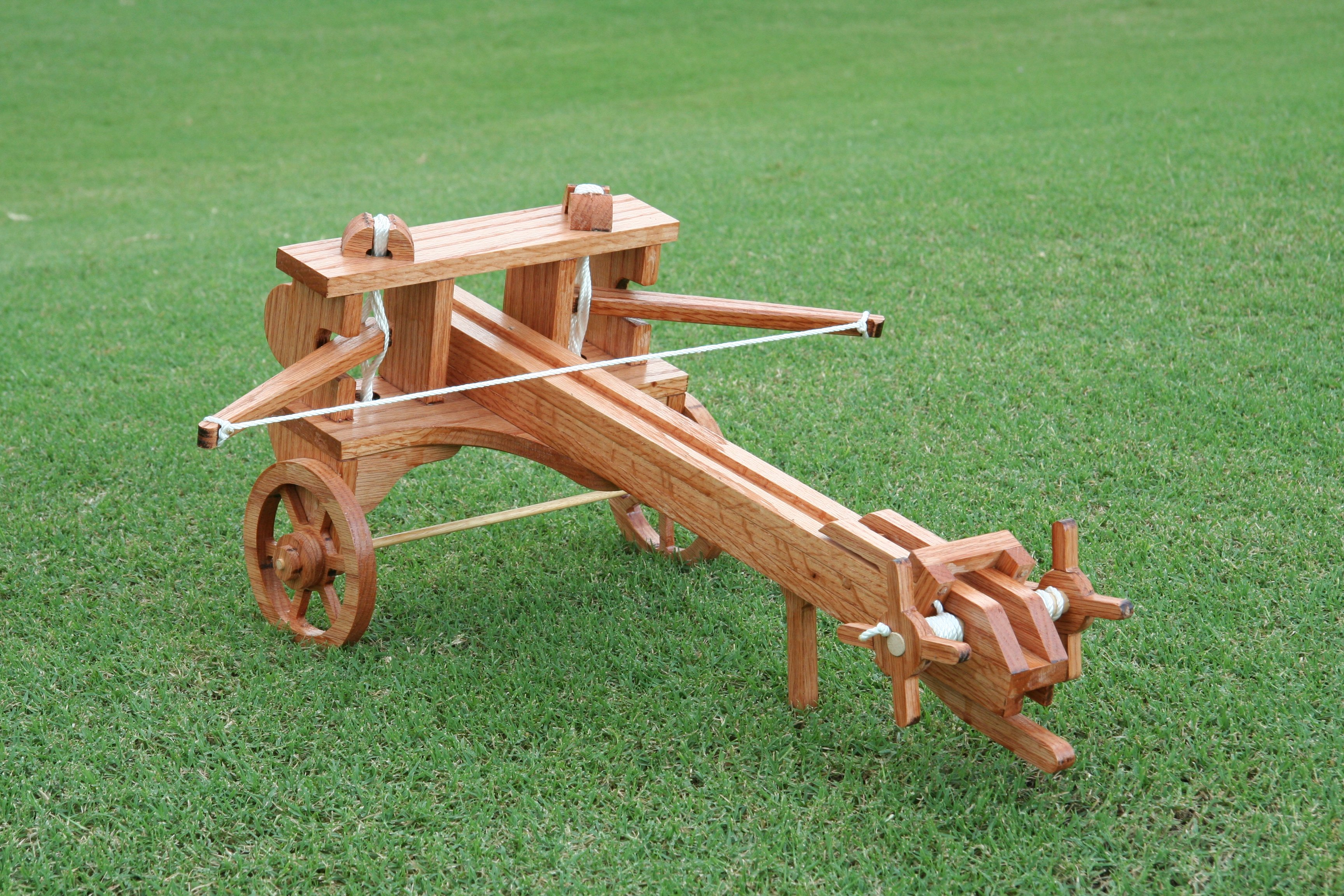 A Greek or Roman Ballista Catapult made from a